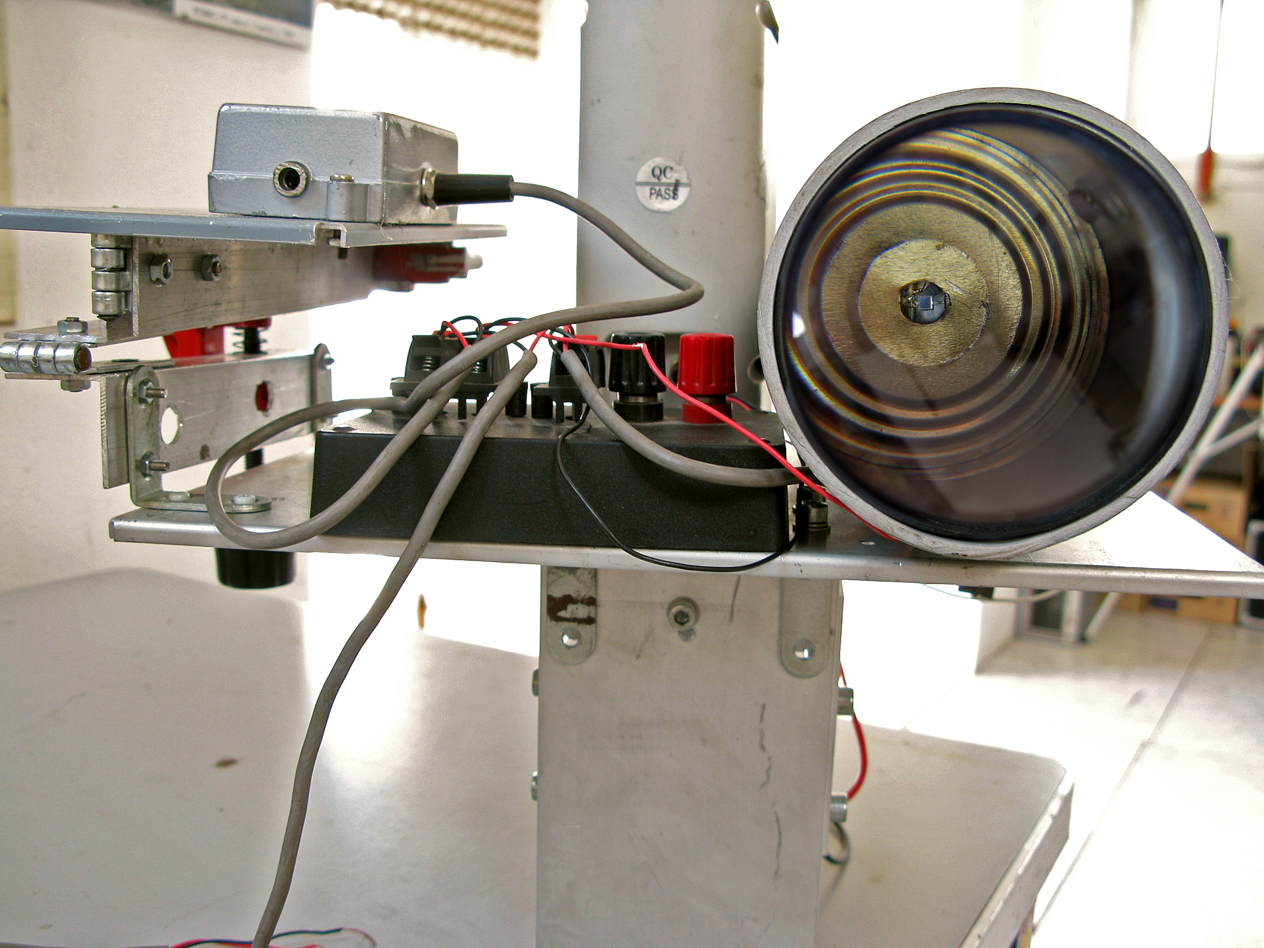 LED transceiver in visible light (λ=700nm) made by F5ELY, 2008. A contact of 8 km has already been carried out.